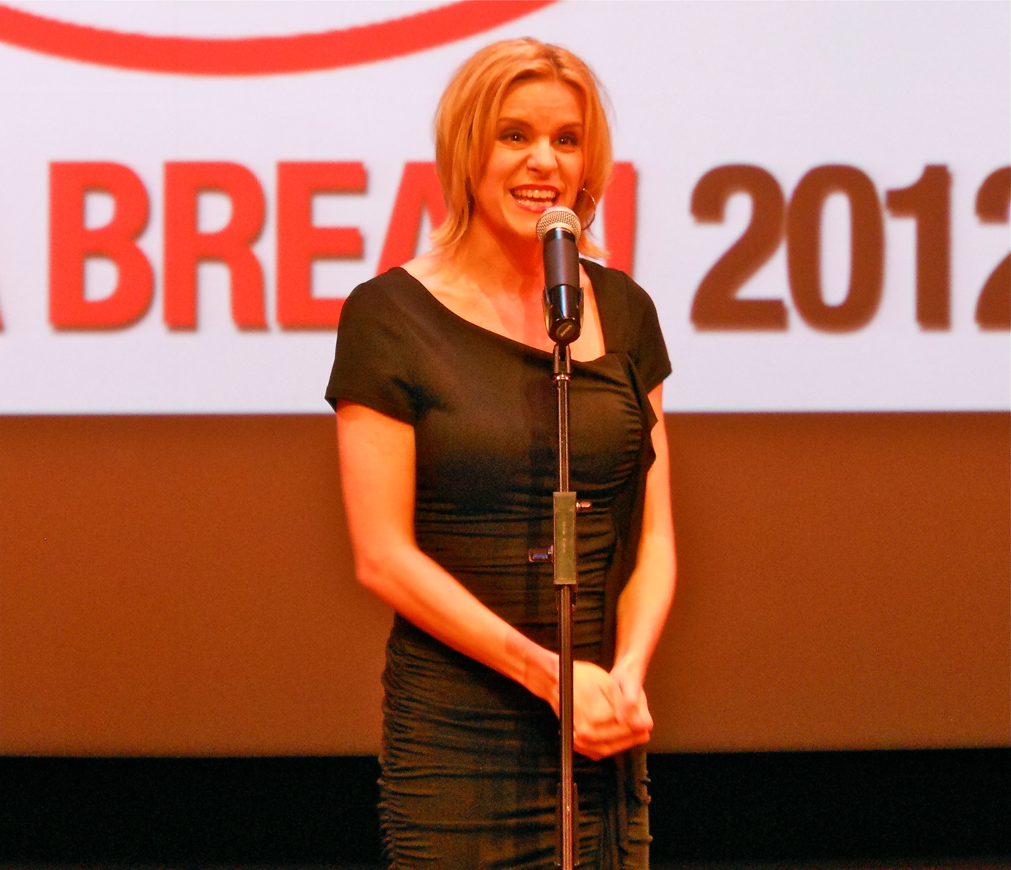 Gimme A Break 2012. Transport Group. The Asia Society. NYC. December 10th 2012.